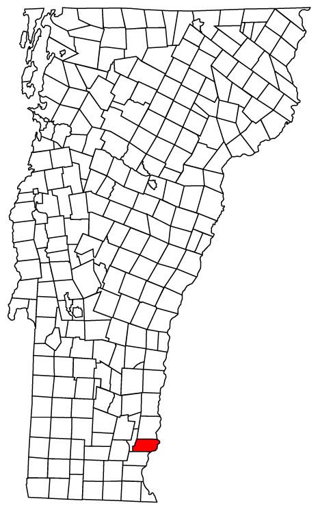 Description: Map of Vermont towns with Putney highlighted Source: Map created by Jared C. Benedict on 26 March 2004. Copyright: © Jared C. Benedict.